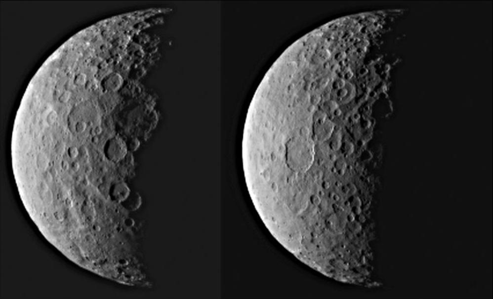 PIA19310: Ceres in Half Shadow NASA's Dawn spacecraft took these images of dwarf planet Ceres from about 25,000 miles (40,000 kilometers) away on Feb. 25, 2015. Ceres appears half in shadow because of the current position of the spacecraft relative to the dwarf planet and the sun. The resolution is about 2.3 miles (3.7 kilometers) per pixel. Dawn is due to be captured into orbit around Ceres on March 6. Dawn's mission is managed by NASA's Jet Propulsion Laboratory, Pasadena, California, for NASA's Science Mission Directorate in Washington. Dawn is a project of the directorate's Discovery Program, managed by NASA's Marshall Space Flight Center in Huntsville, Alabama. The University of California, Los Angeles, is responsible for overall Dawn mission science. Orbital ATK, Inc., in Dulles, Virginia, designed and built the spacecraft. The German Aerospace Center, the Max Planck Institute for Solar System Research, the Italian Space Agency and the Italian National Astrophysical Institute are international partners on the mission team. For a complete list of acknowledgments